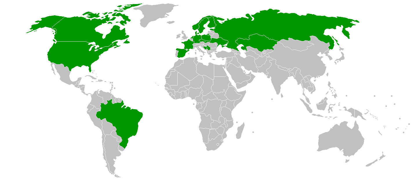 Nationalities of PGL Major: Kraków 2017 participants